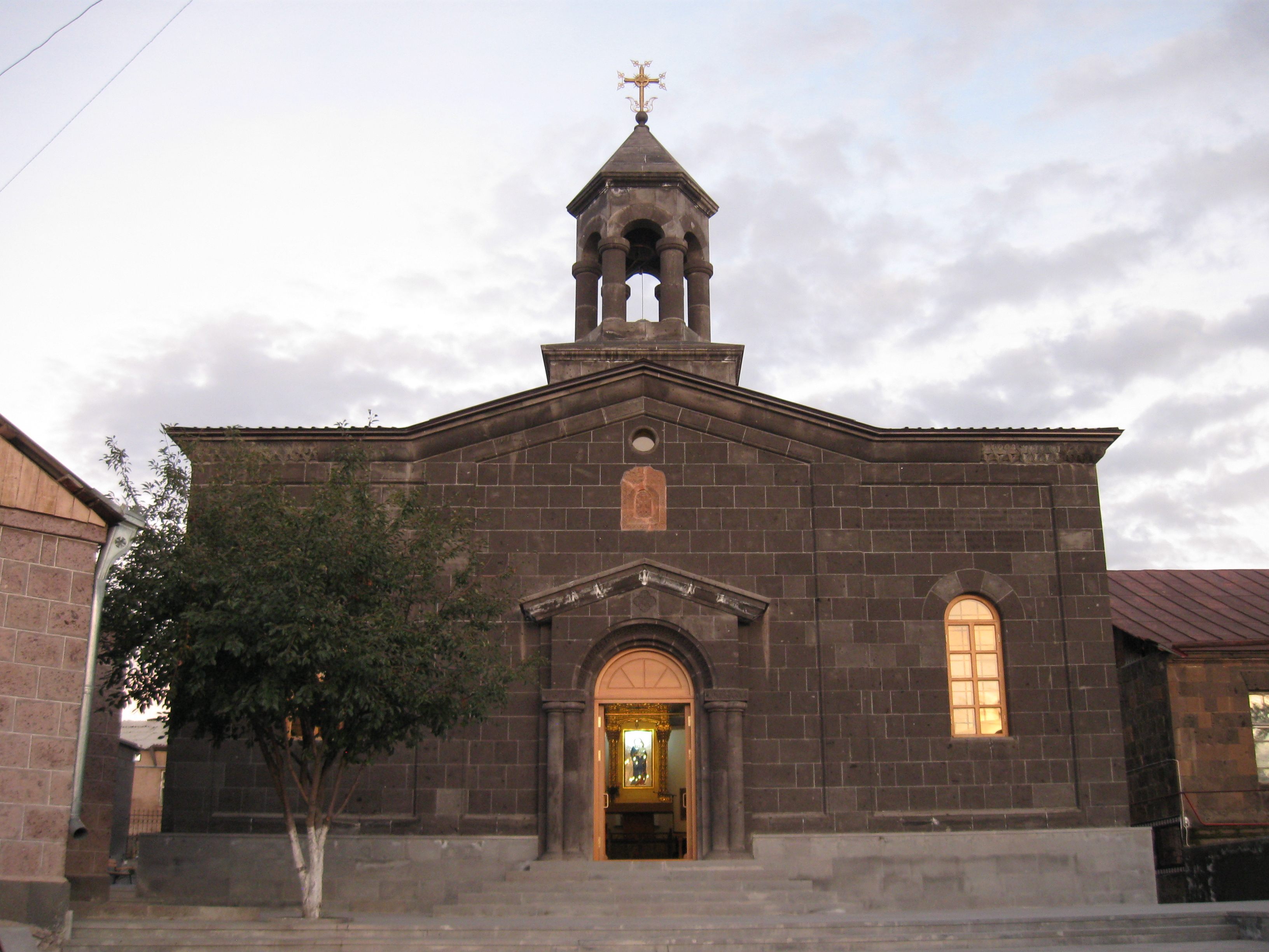 Grigor Lusavorich church in Gyumri